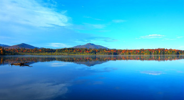 Ampersand Mountain from Oseetah Lake Early Fall, a picture of the lake reflection with hints of fall color By Christine Dekkers